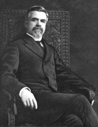 Portrait of Julian Quarles